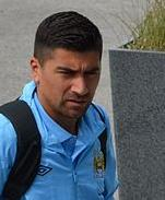 Crop of a photo of David Pizarro